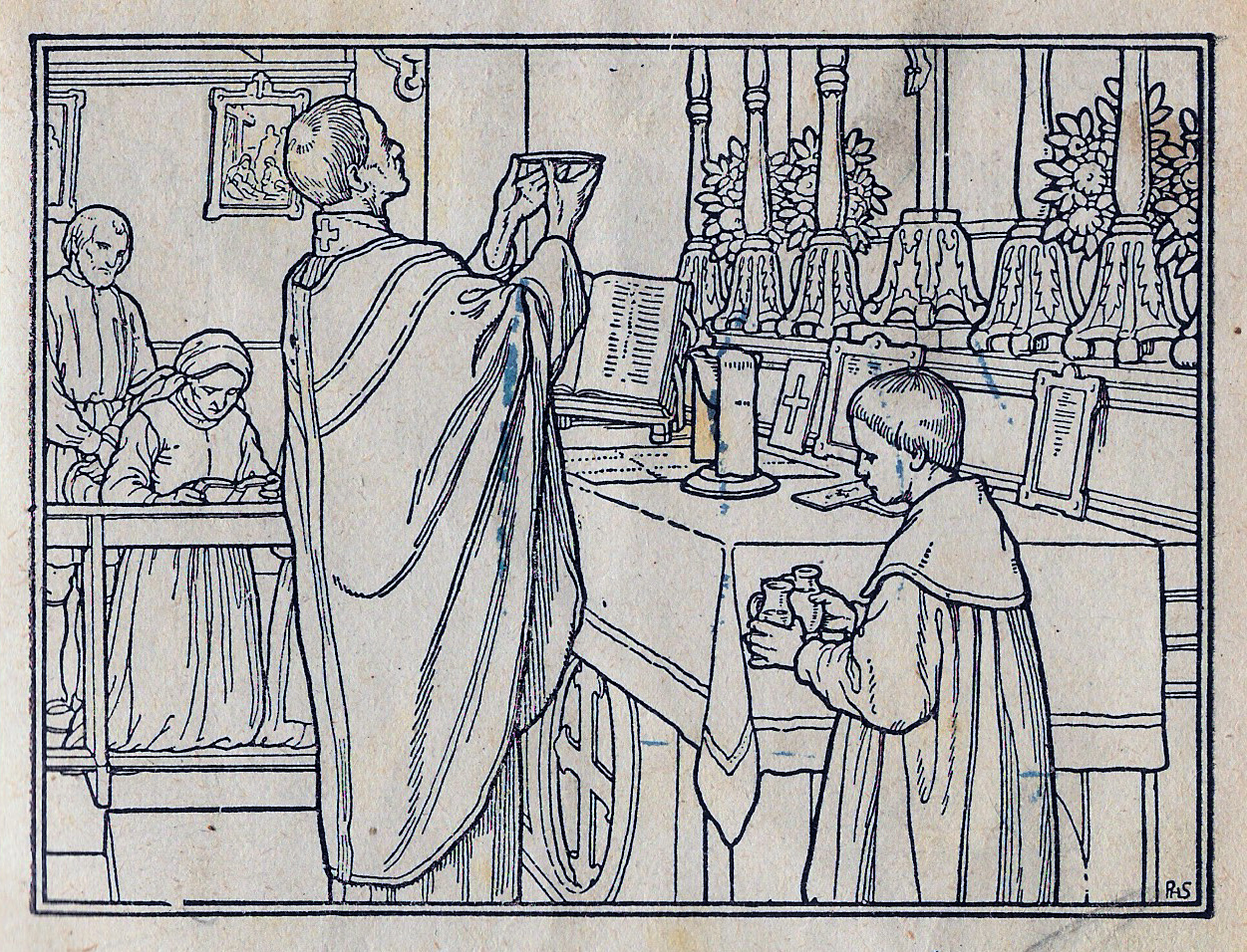 Preparation of consecration.